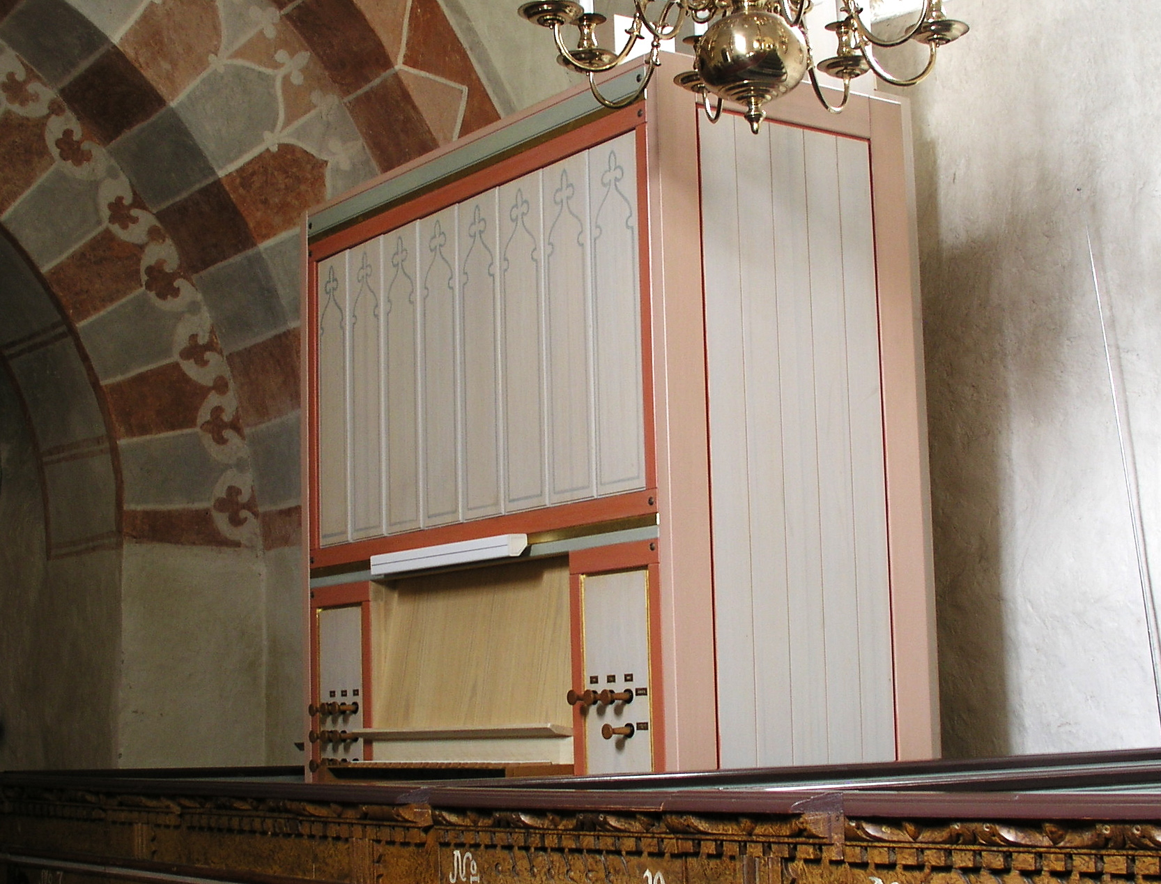 Lummelunda kyrka, Diocese of Visby, Gotland, Sweden. Organ.